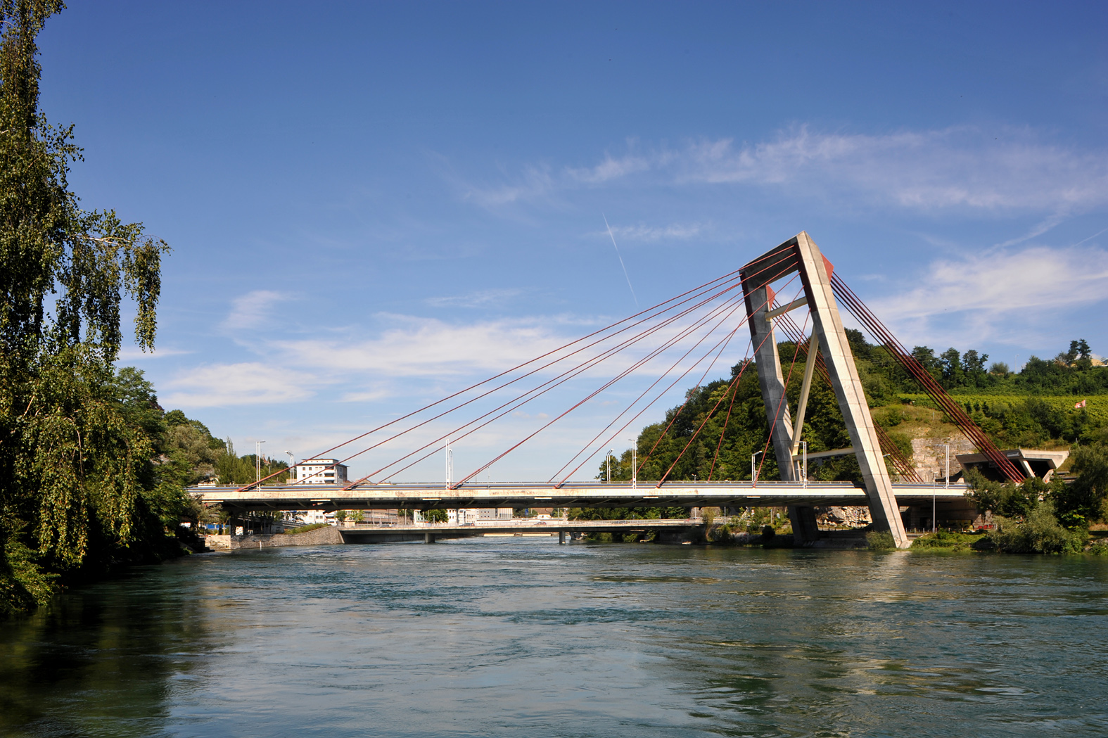 Highway bridge over river Rhine between Schaffhausen and Flurlingen; Schaffhausen and Zurich, Switzerland. In the background the road bridge Schaffhausen–Flurlingen.